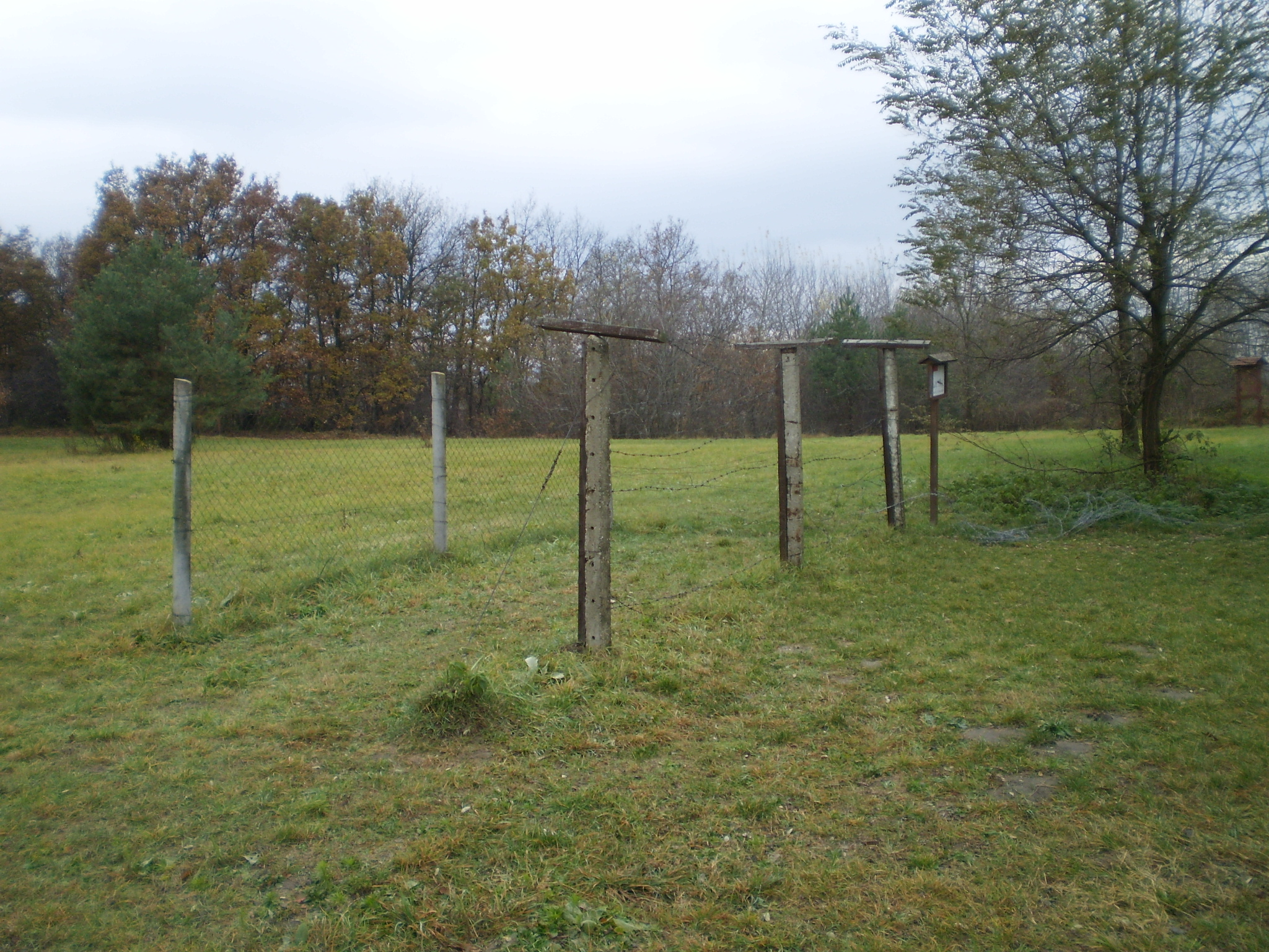 iron curtain, Pan-European Picnic park, near Sopron, Hungary